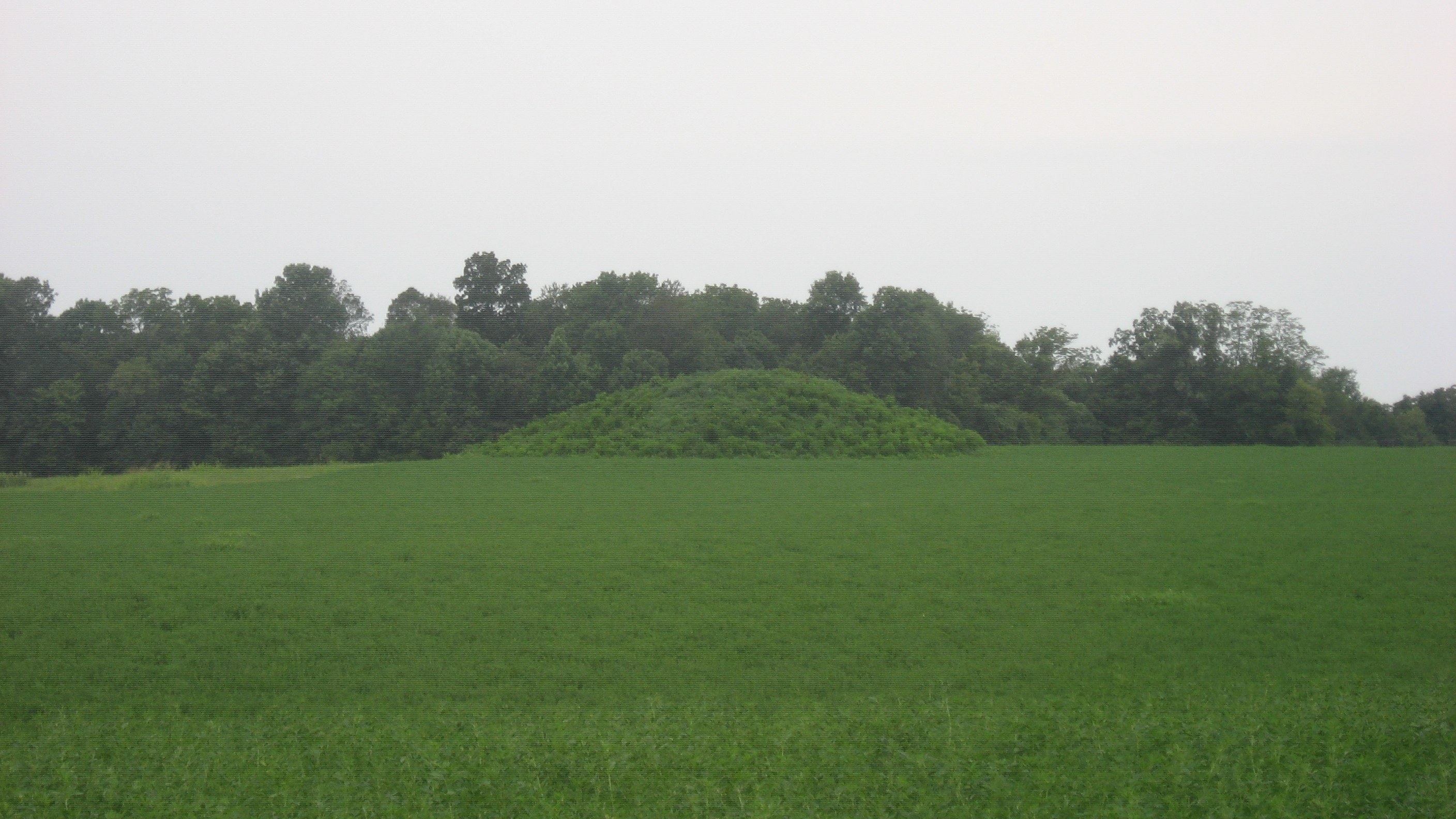 View from the east of the Eagle Township Works I Mound, located west of Mound Road about 0.5 miles north of its junction with Fincastle Road, east of Fincastle in Eagle Township, Brown County, Ohio, United States. Built by people of the Adena culture, it is an important archaeological site and is listed on the National Register of Historic Places.